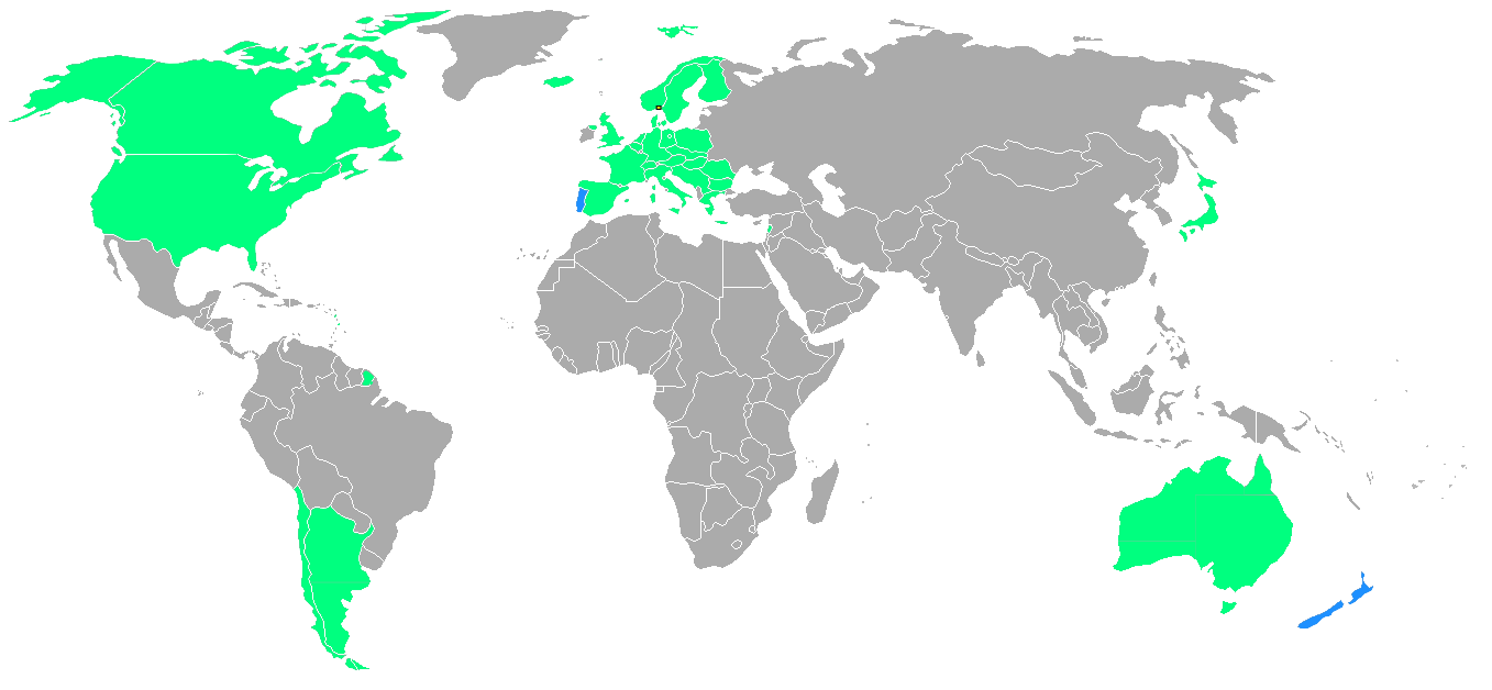 Countries which participated in the 1952 Winter Olympics, as listed at the report of this games, derived from blank world map. Blue = Participating for the first time Green = Have previously participated. Yellow square is host city (Oslo).